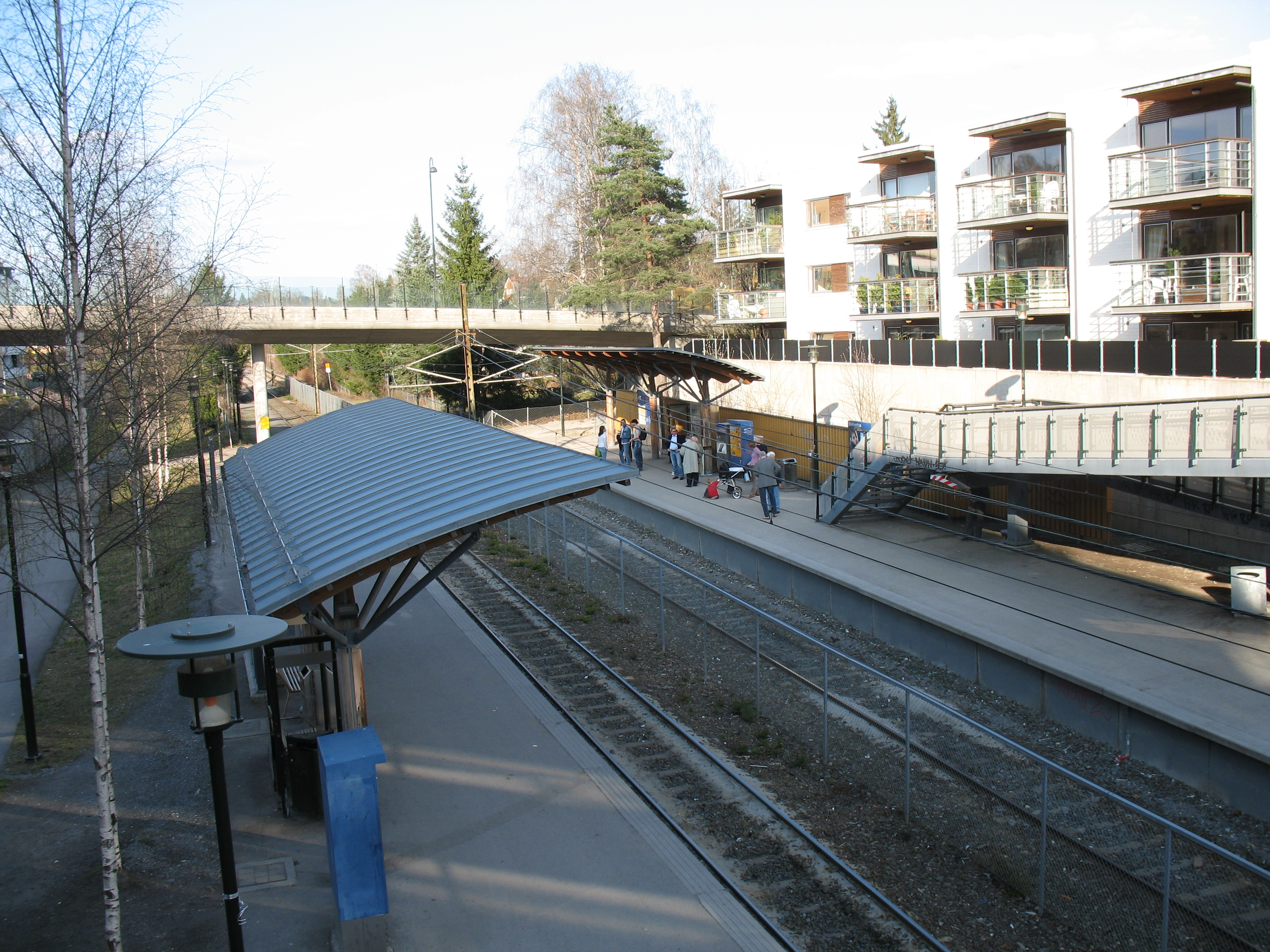 Oslo subway station Bekkestua.